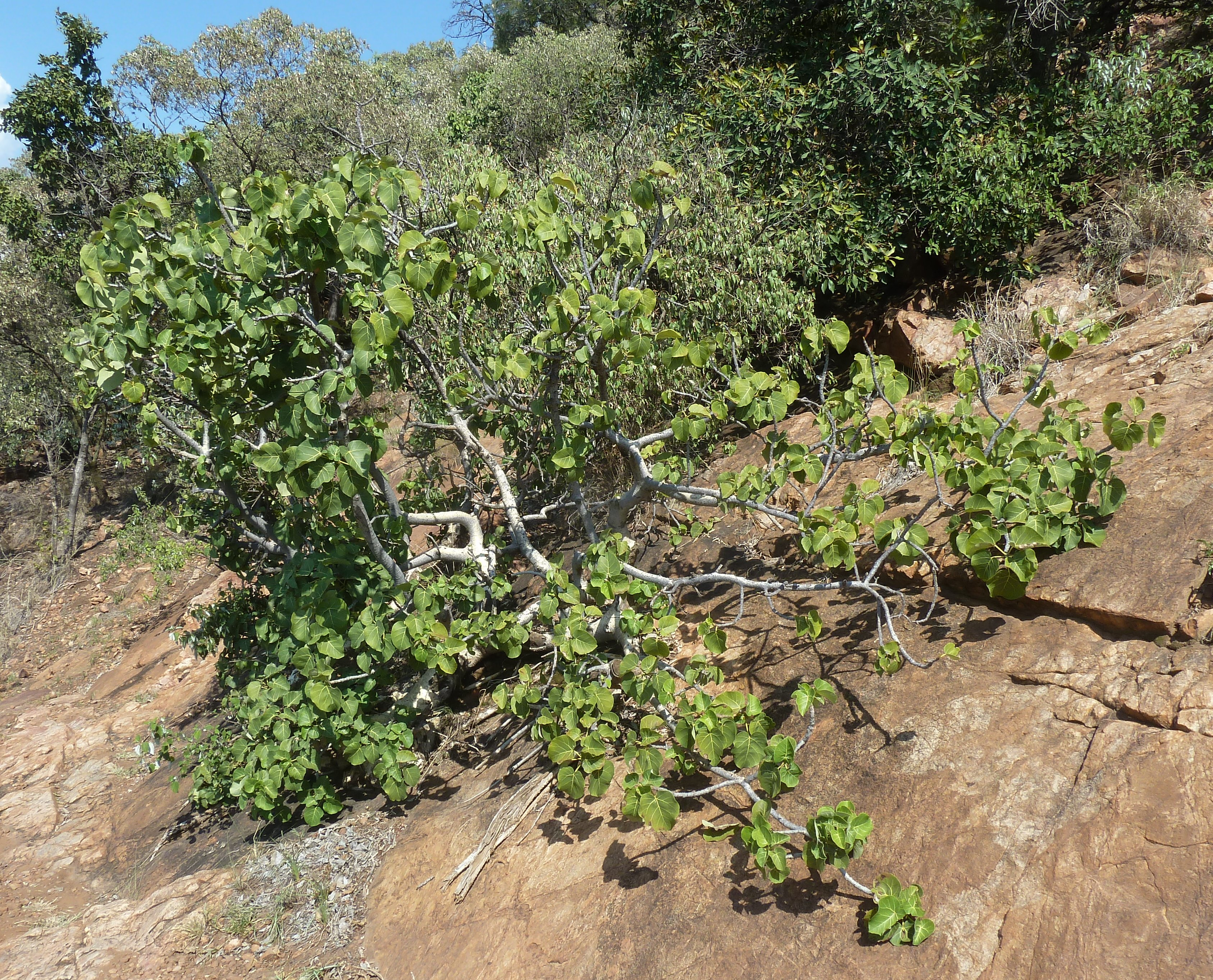 Habit of a Large-leaved rock fig in the Wonderboom Nature Reserve in Pretoria